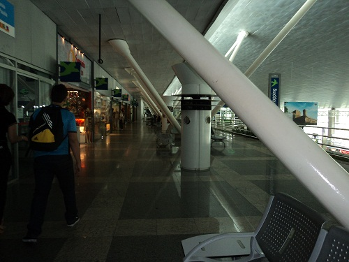 Aeroshopping Belem Aiport